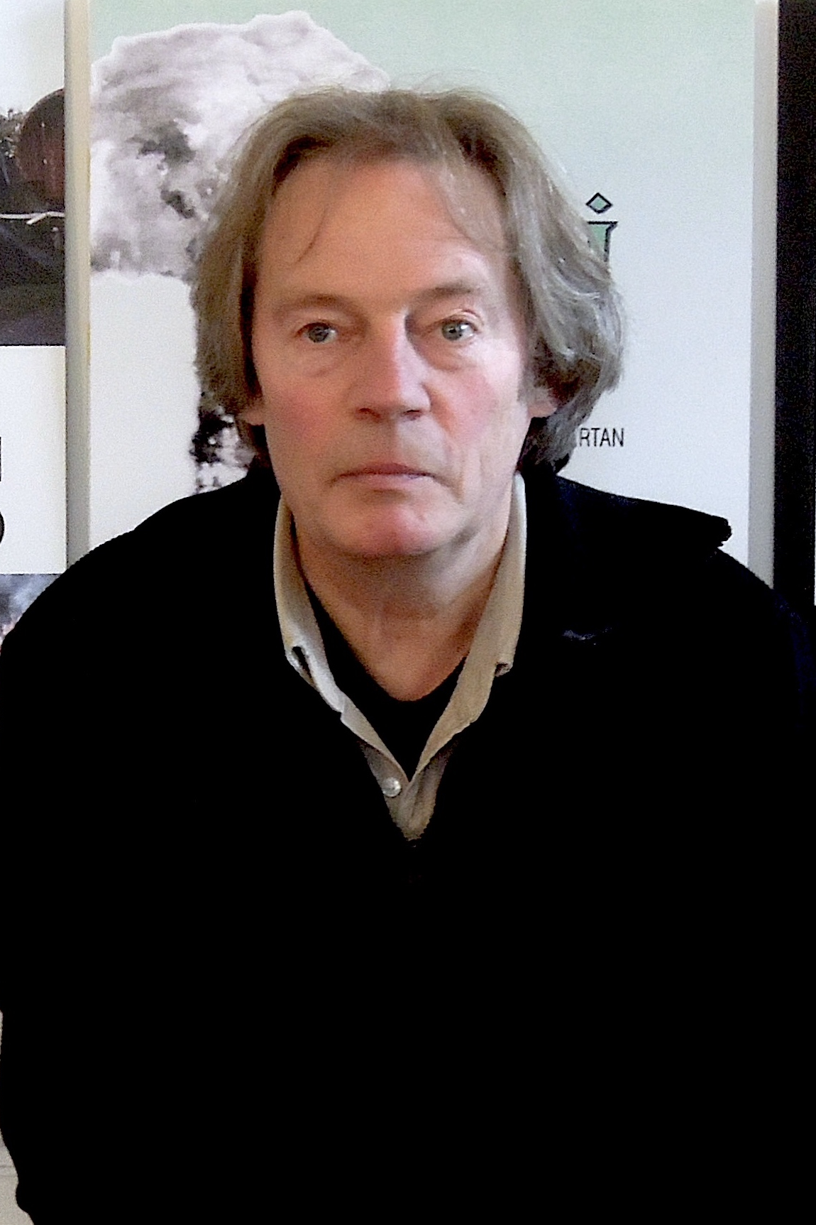 Oliver Herbrich presenting the film retrospective at Cinema Breitwand, 2019